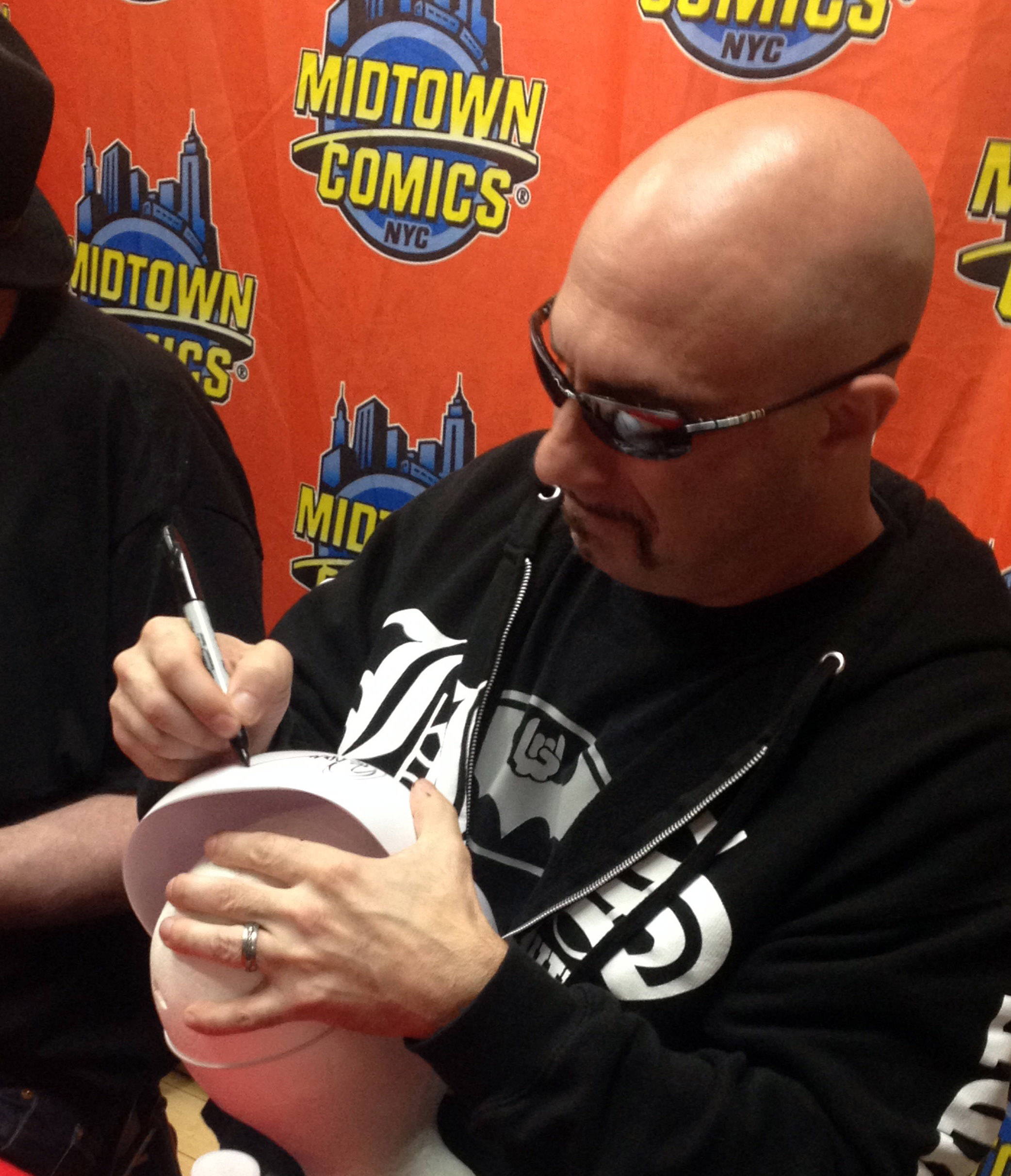 Comics artist Greg Capullo signing a Talon mask during an appearance at Midtown Comics Downtown September 17, 2016, the third annual Batman Day, when DC Comics celebrates the creation of the character Batman. Capullo is the co-creator of the Talon character. This photo was created by Luigi Novi. It is not in the public domain, and use of this file outside of the licensing terms is a copyright violation.